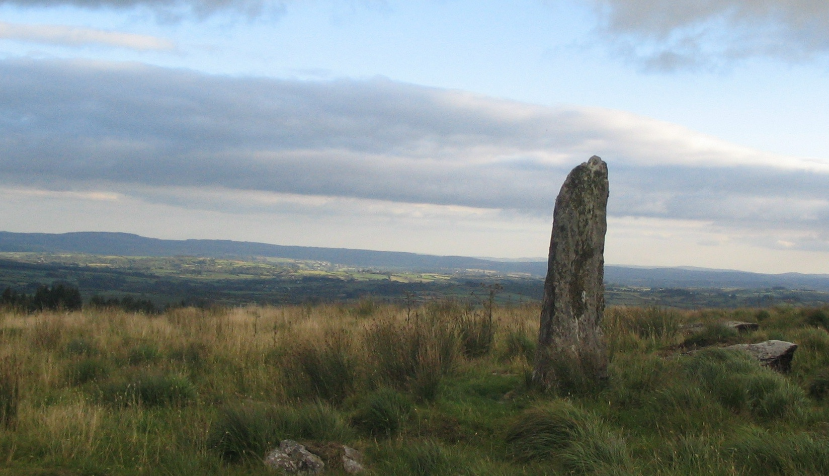 Unidentified standing stone located between Millstreet and Ballinagree, Co Cork, Ireland.